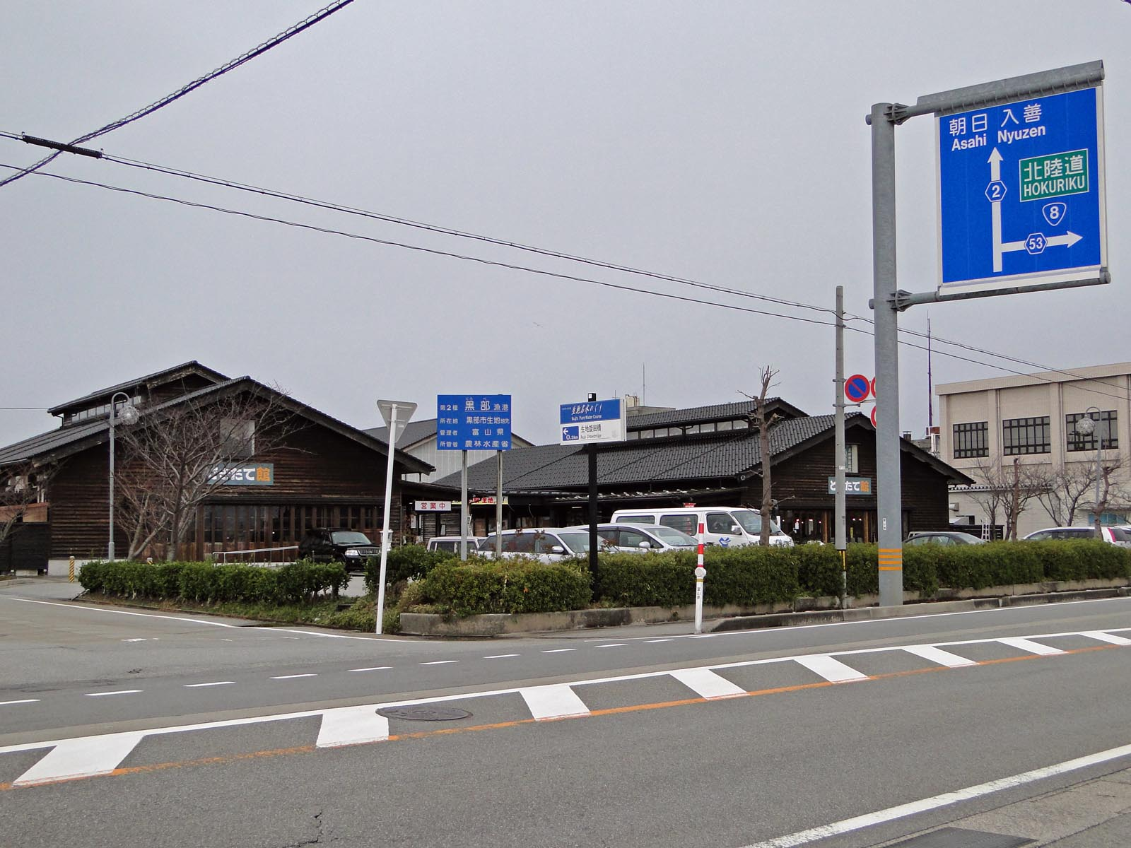 Fish Station IKUJI another view.